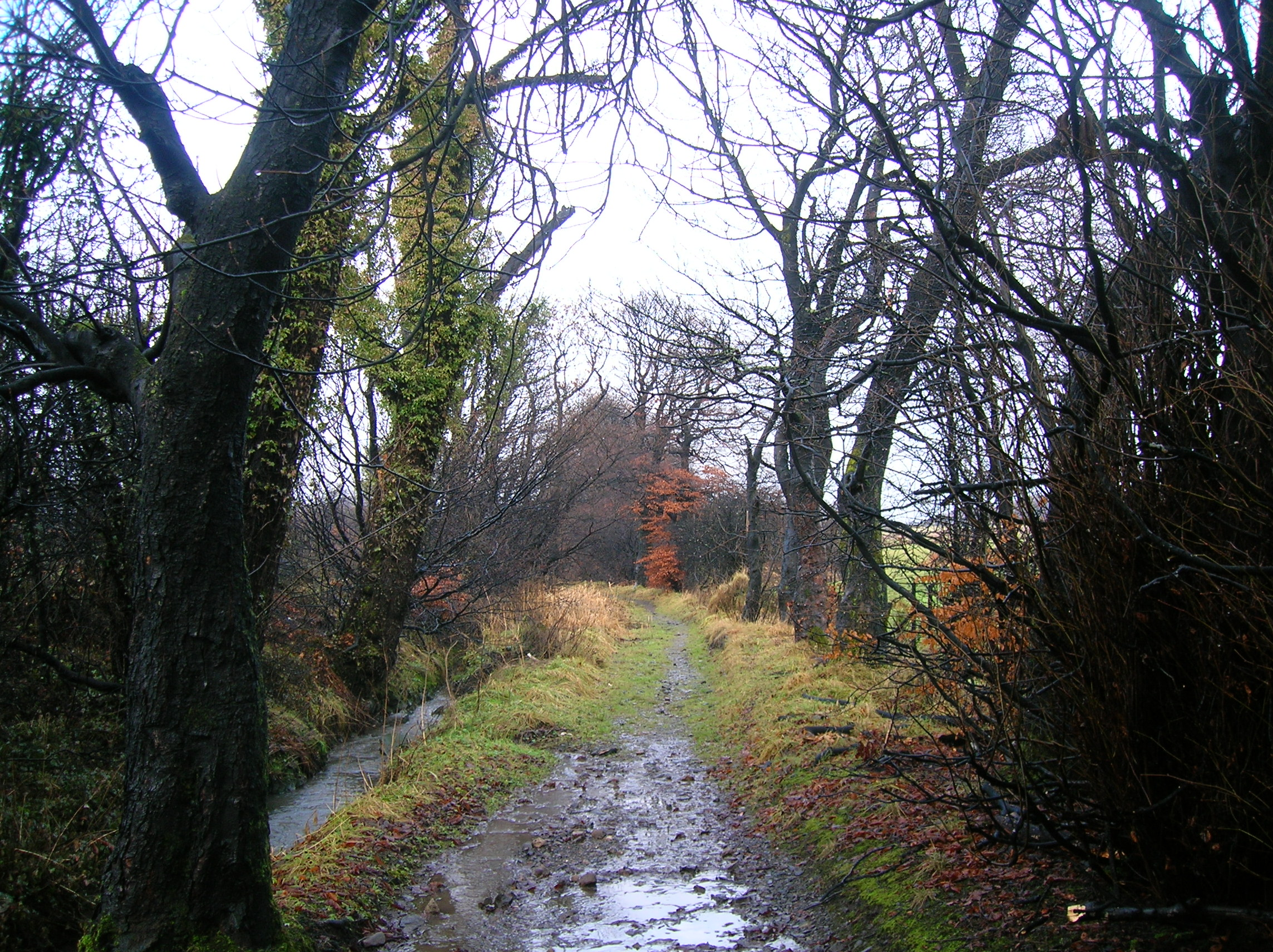 The Mains Burn and lane near old Mains House site, Beith, North Ayrshire, Scotland.